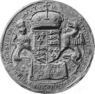 Seal of Henry VIII